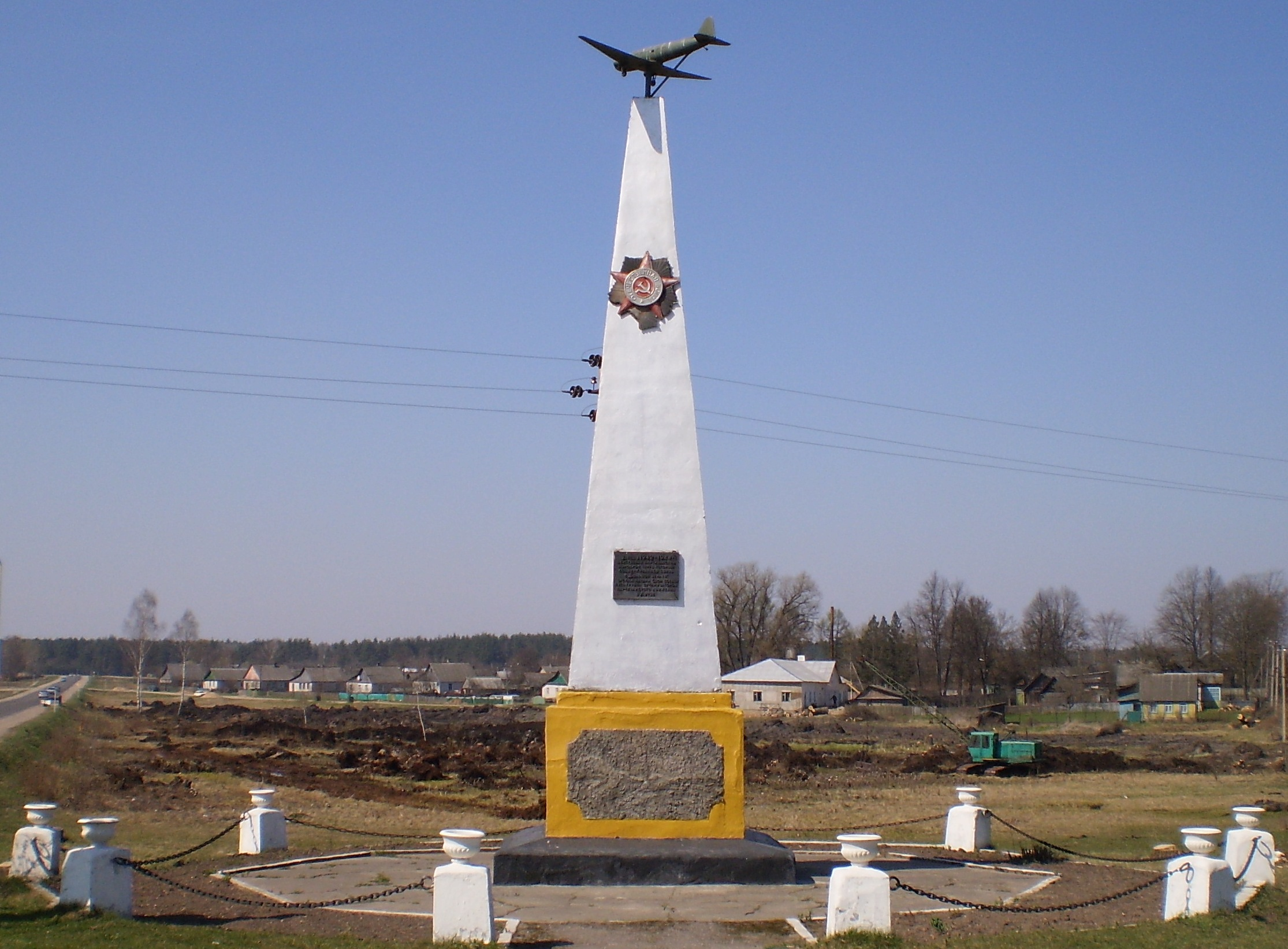 Monument to the Lithuanian Pilot (name please?!) who flew wounded people out of town in World War II.